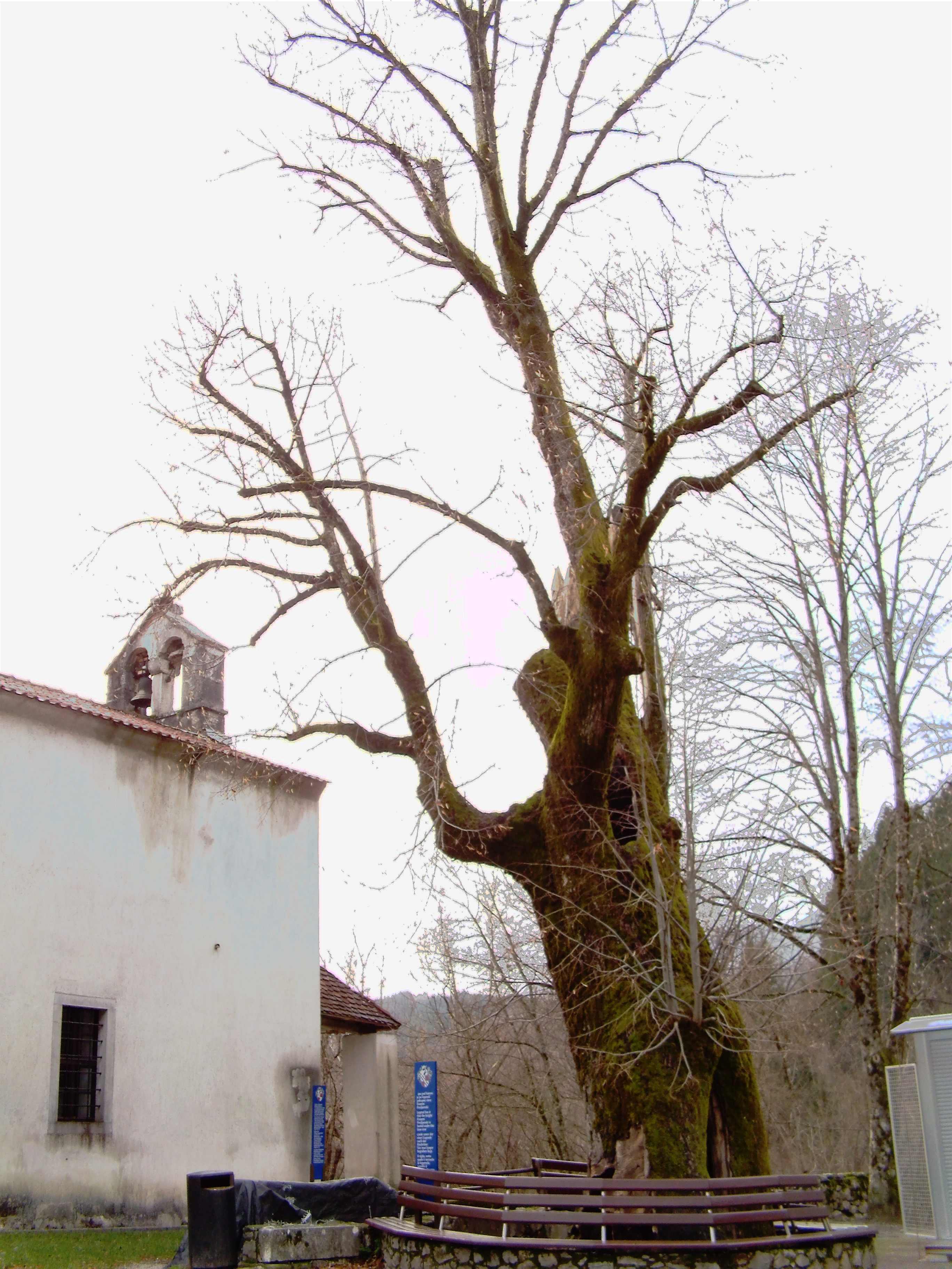 The lime tree under which is, according to legend, burried Erazem of Predjama. 15th century Gothic church of the Virgin Mary of Sorrows in the background.